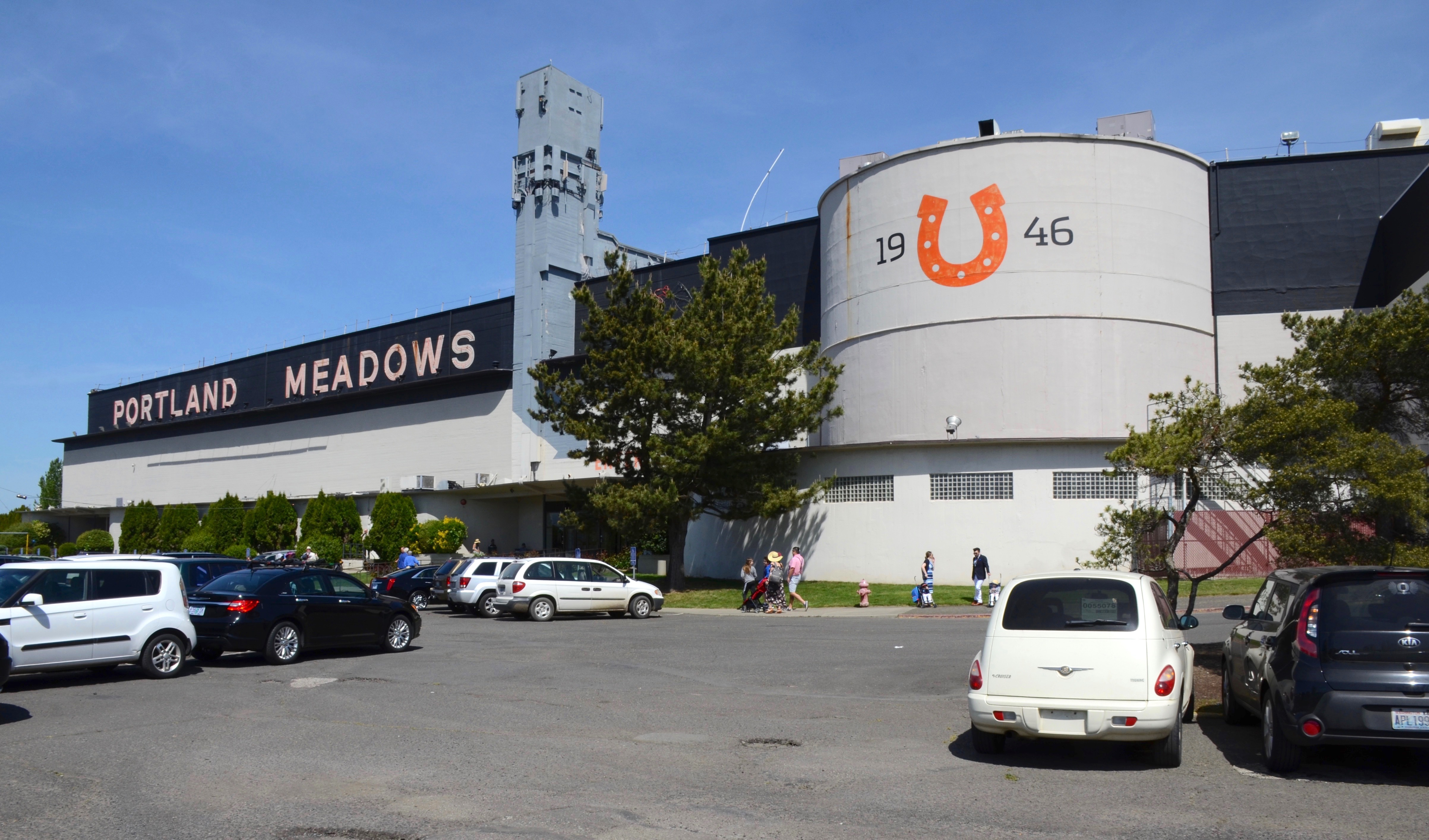 The west exterior of Portland Meadows horse racetrack in Portland, Oregon, from its parking lot.